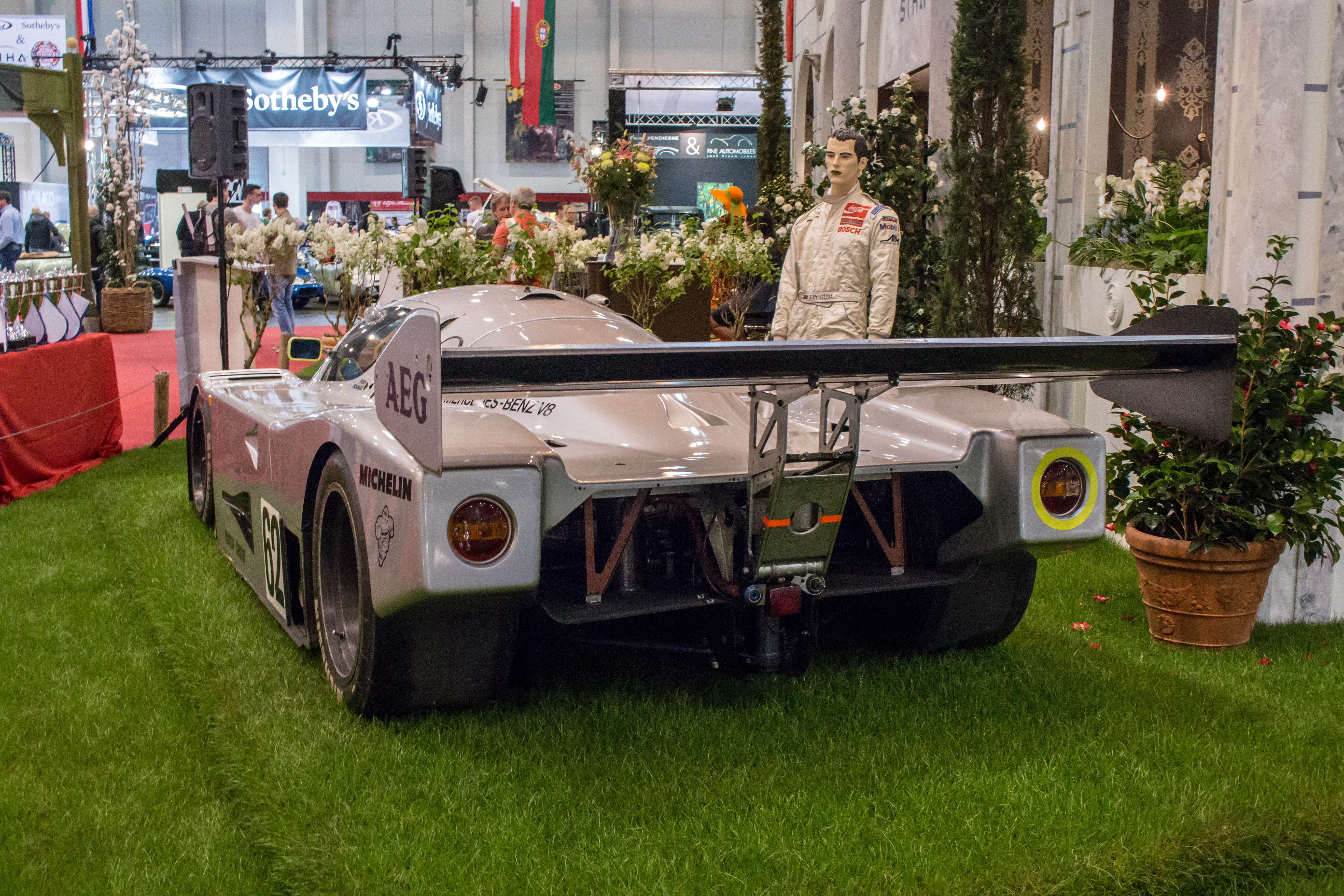 Techno Classica 2018, Essen